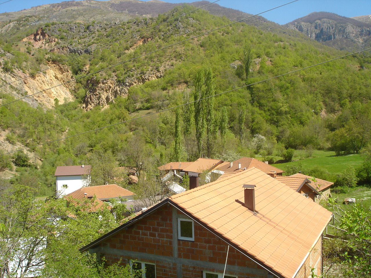 village of Breštani in Centar Župa Municipality, near Debar, Macedoni